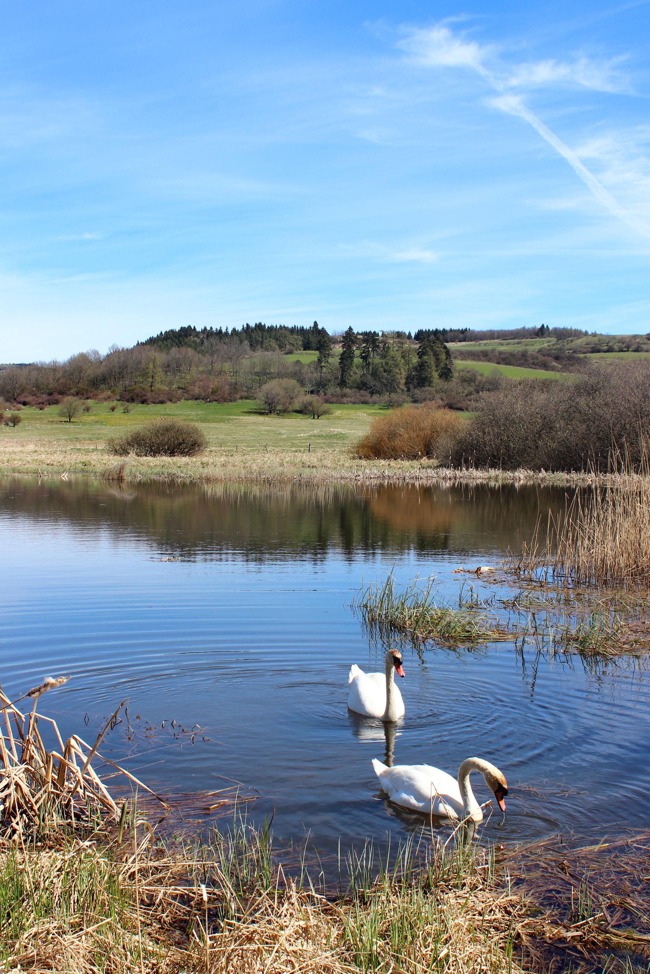 Zelený pond on Lomnický Creek, southeast of Stružná village, Czech Republic